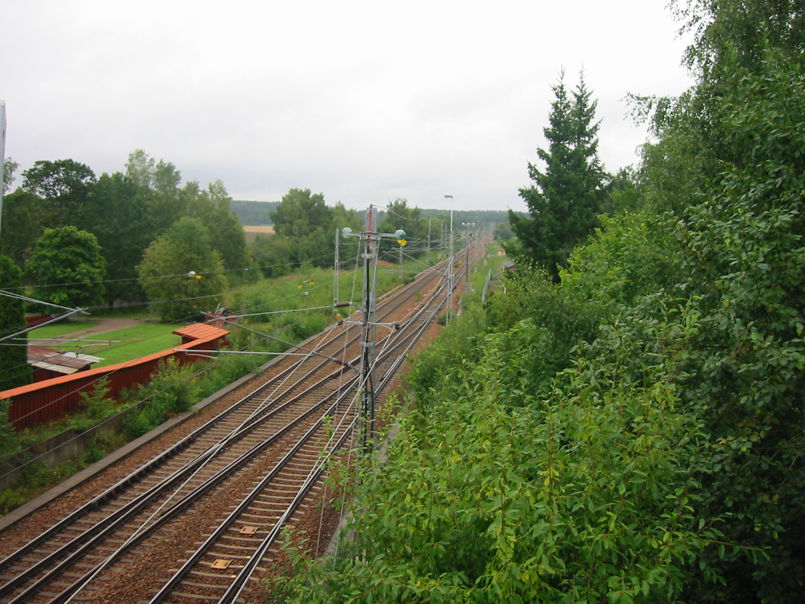 Tumbo, view east from the road bridge. To the right of the tracks is the railway station at Rekarne (partly invisible). The tracks continues towards Eskilstuna.